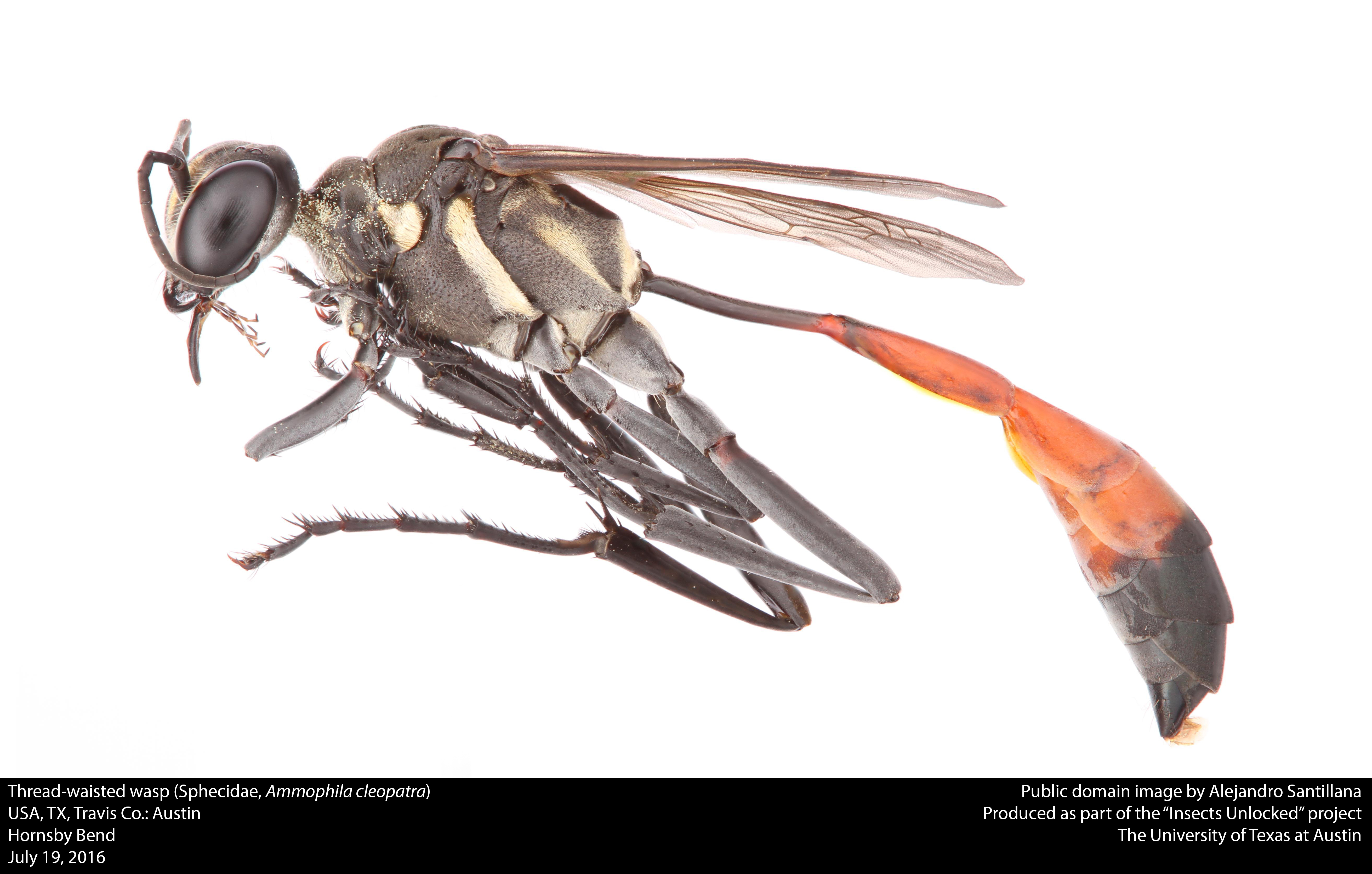 USA, TX, Travis Co.: Austin Hornsby Bend 19-vii-2016